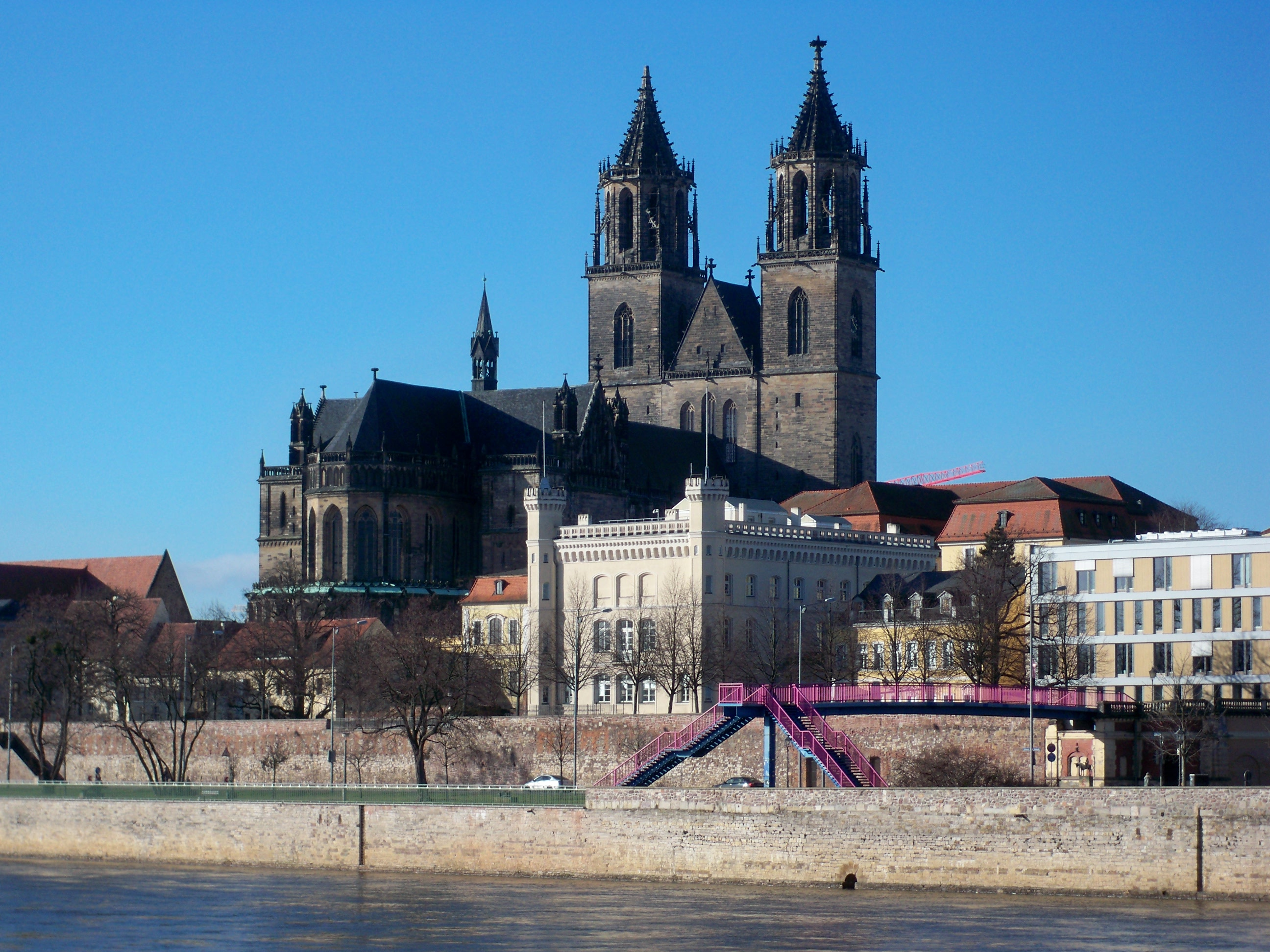 Magdeburg, Saxony-Anhalt, Cathedral seen from river Elbe